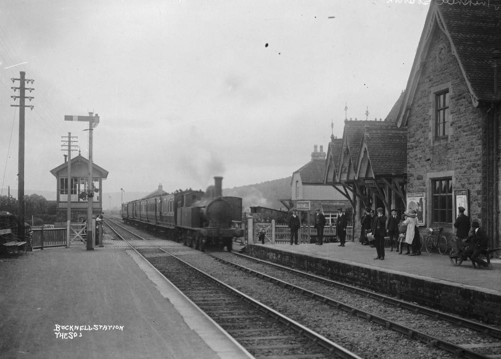 Abstract: Bucknell station the sqs sic